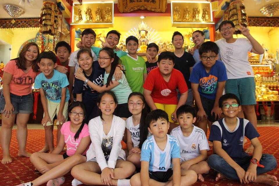 Youths at Thekchen Choling